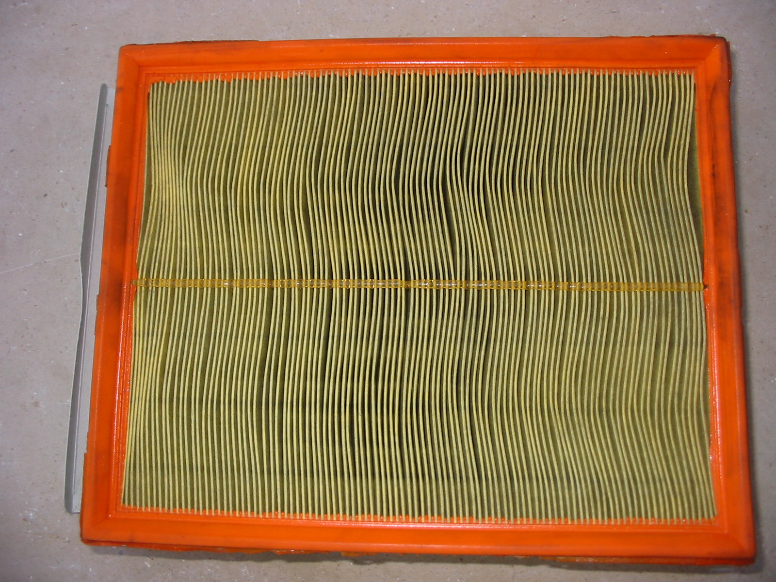 Air filter, opel astra